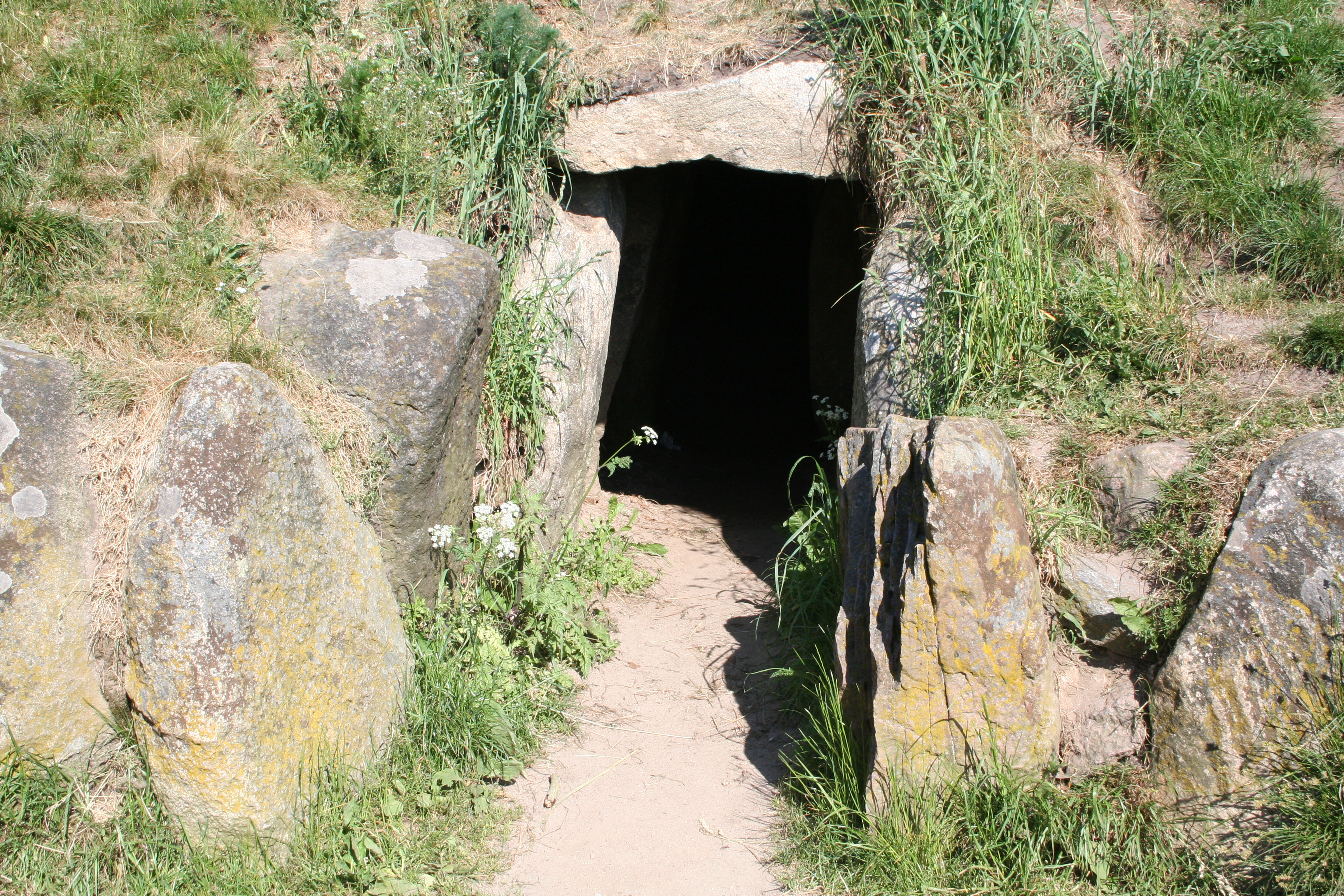 Rugballe Grønhøj near Horsens, Midtjylland, Denmark